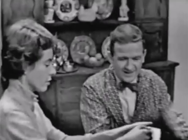 Louisa Horton & Patrick McVey in the TV series Suspense, episode Edge of Panic (cropped screenshot)